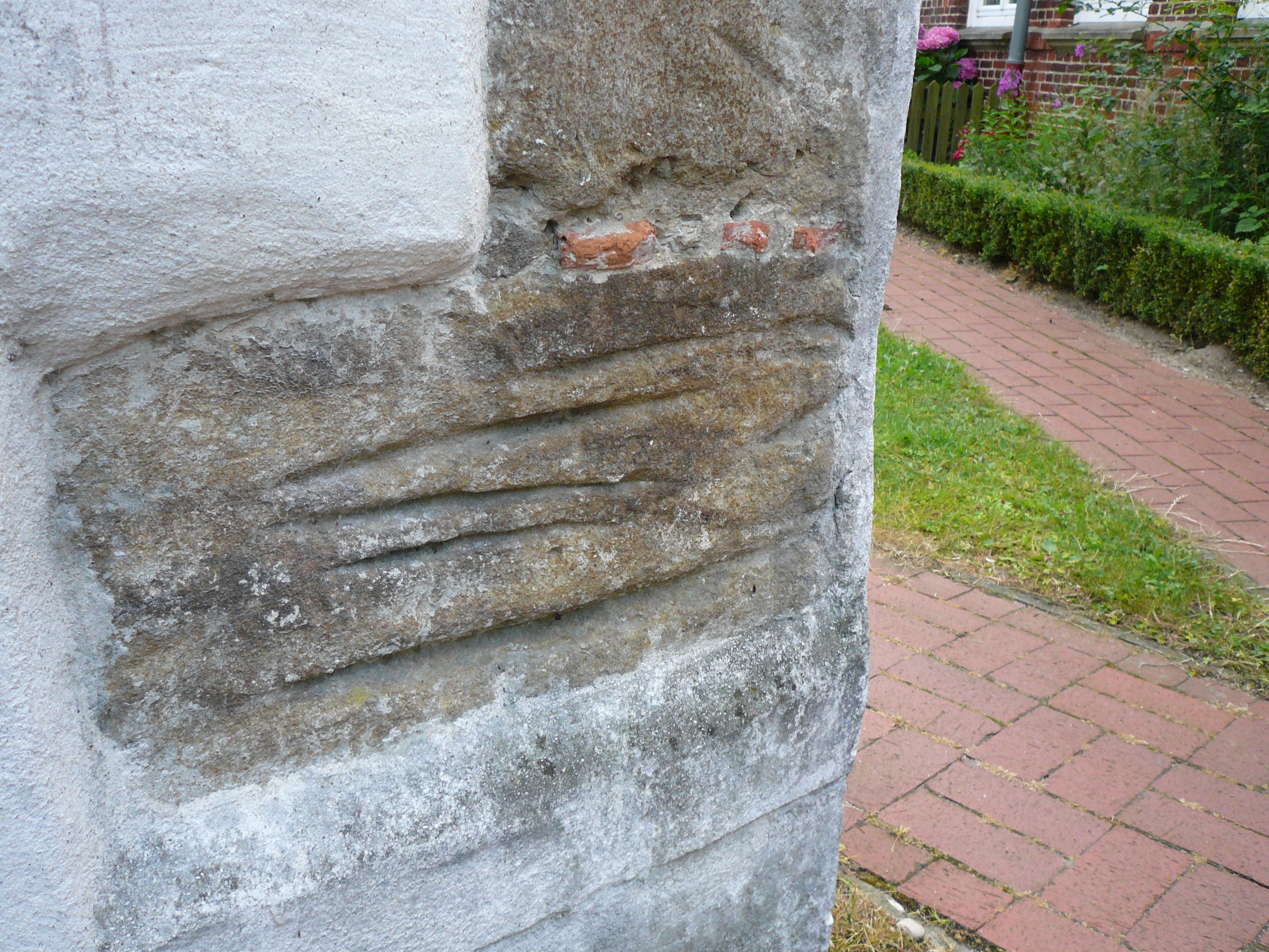 Stress marks made by weapons at the tower of the church of St. Jürgen in Lower Saxony